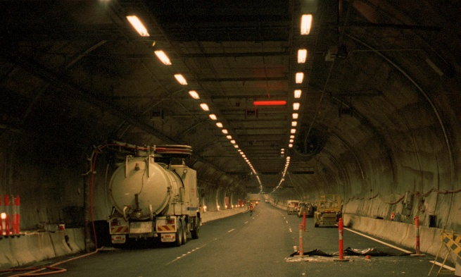 Burnley tunnel, shortly before opening, Dec 2000 Melbourne City Link, Burnley tunnel: looking west towards low point at Swan St shaft, December 2000 Photograph taken by Ecb Major in-tunnel components of E&M infrastructure are shown here. New Jersey barriers at sidewalls, three traffic lanes, variable message signs (reading "message test" trivia fans!), lighting, 1600 mm jet fan, dual row of lighting, firemain, smoke extract duct between rows of lights. Blacktop that wasn't covered by running water was a welcome novelty at this time. If you want a more detailed picture or a negative scan, please leave a message on my talk page. Assuming I'm still contributing I will respond.